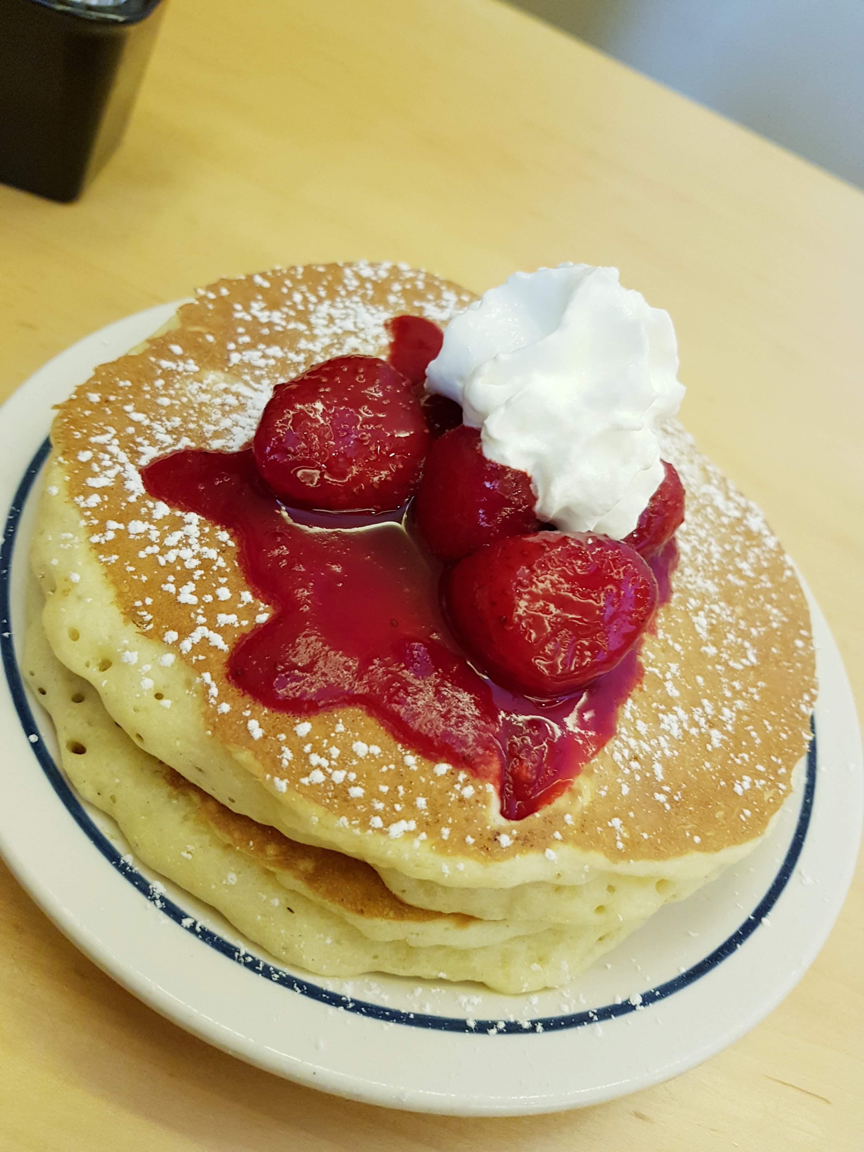 Cheesecake Pancake from IHOP, Jeddah, Saudi Arabia